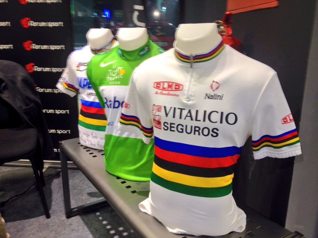 Maillots de Óscar Freire